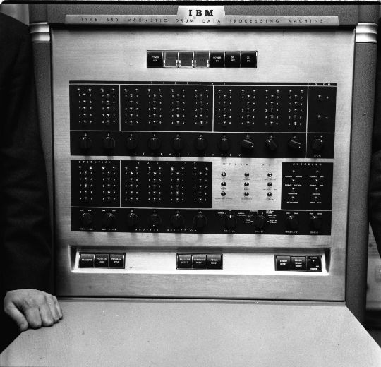 Photograph of IBM 650 computer, “Ensi”, at Postisäästöpankki of Finland.